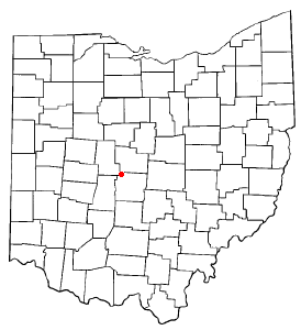 Locator map for Dublin, Ohio